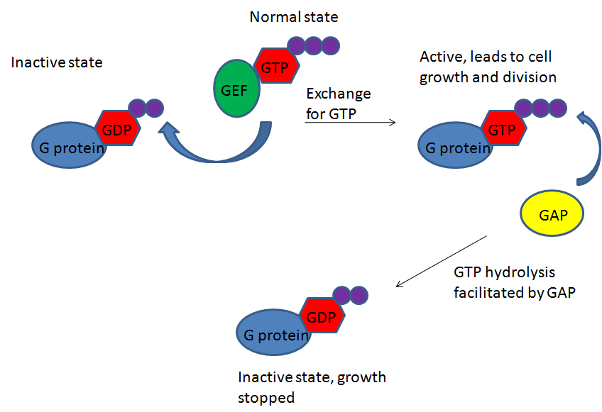 Normally, G proteins are regulated in their activity by G proteins such that there is regulated cell division.